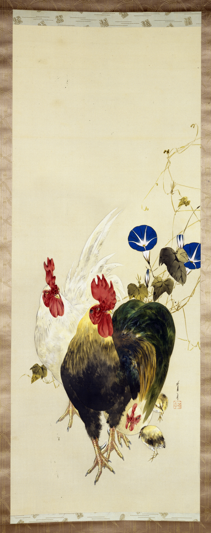 Here is yet another projection of human qualities upon animals: the proud roosters approach us as equals, and the presumed hen and baby chicks huddle under their protection. The theme of cocks and morning glories is a traditional one, a reminder that the lover must withdraw from the chambers of his loved one at dawn, that bliss cannot be maintained forever.